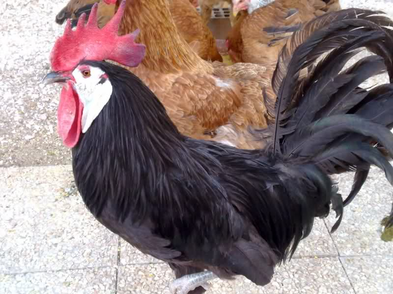 Male of White faced black spanish, race of old Mediterranean chicken